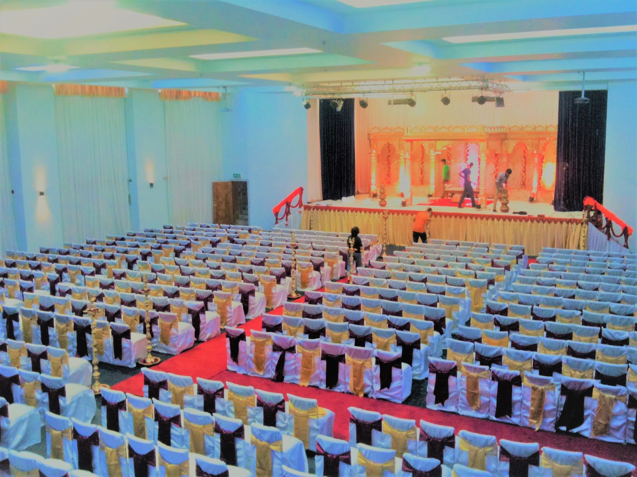 Sydney durga temple wedding hall